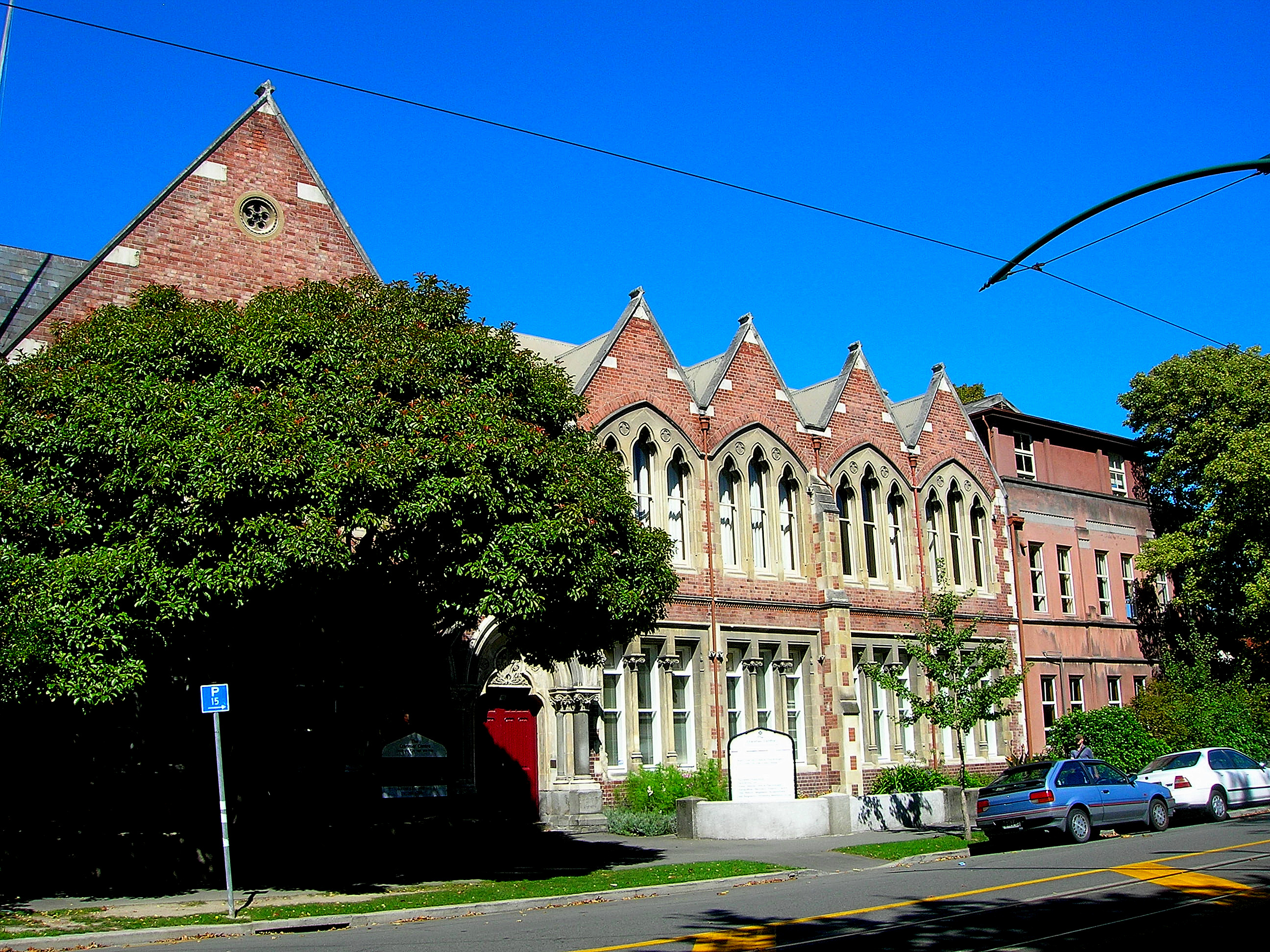 The Cranmer Center, previously used as Christchurch Girls' High School, on Cranmer Square in Christchurch (Sat 7 March 2009).